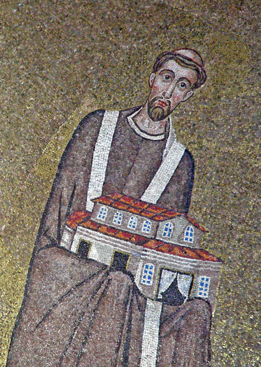 Church of Sant'Agnese fuori le mura, on via Nomentana, in Rome, inside, apse mosaic, part of